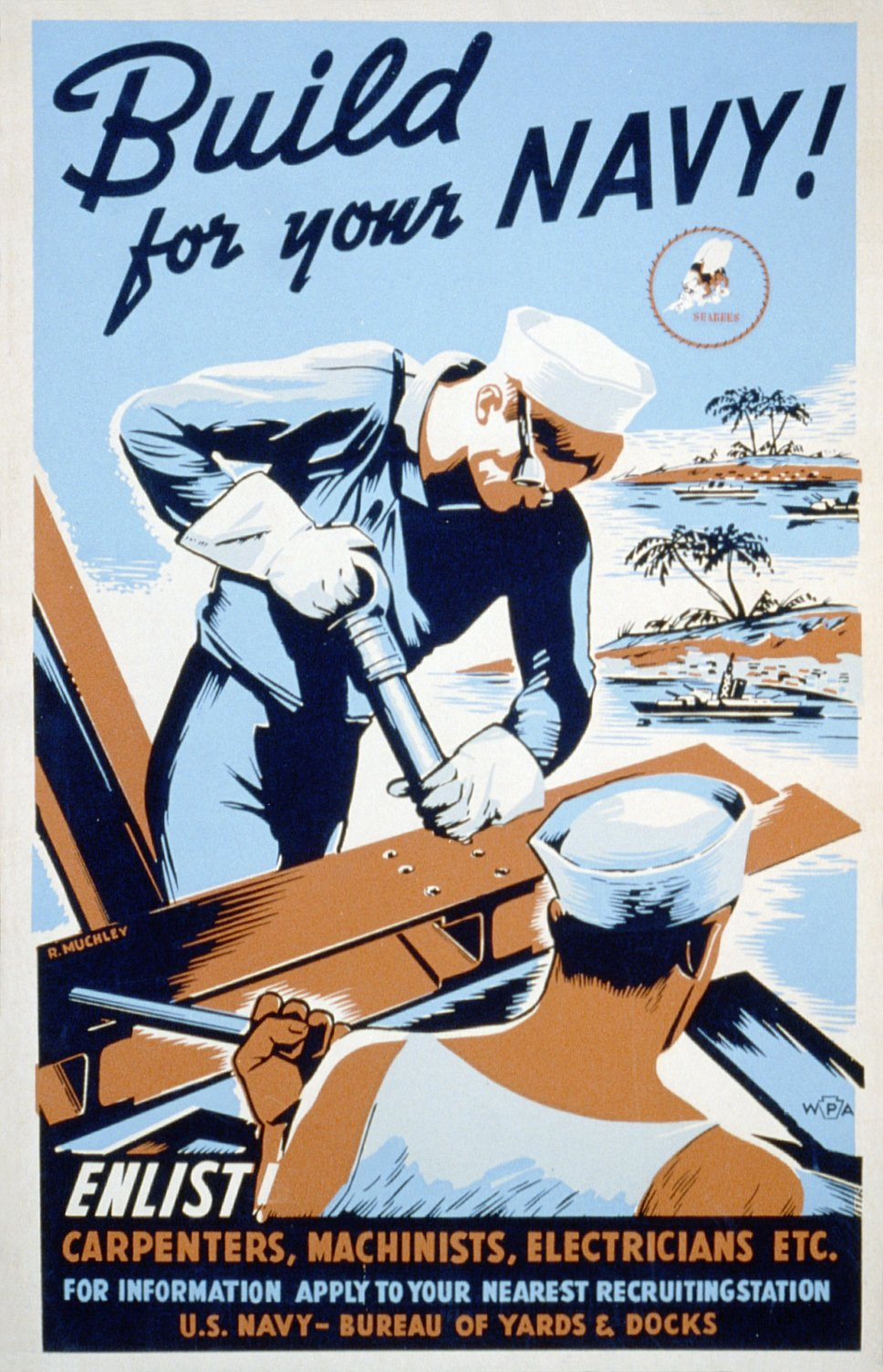 A sharpened version of File:Build for your Navy.jpg, poster encouraging skilled laborers to join the Seabees as part of the war effort.